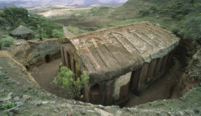 Photo of the Genneta Maryam church in Lalibela, Ethiopia. It is believed to have been built in the late 13th century, during the rule of Yekuno Amlak.